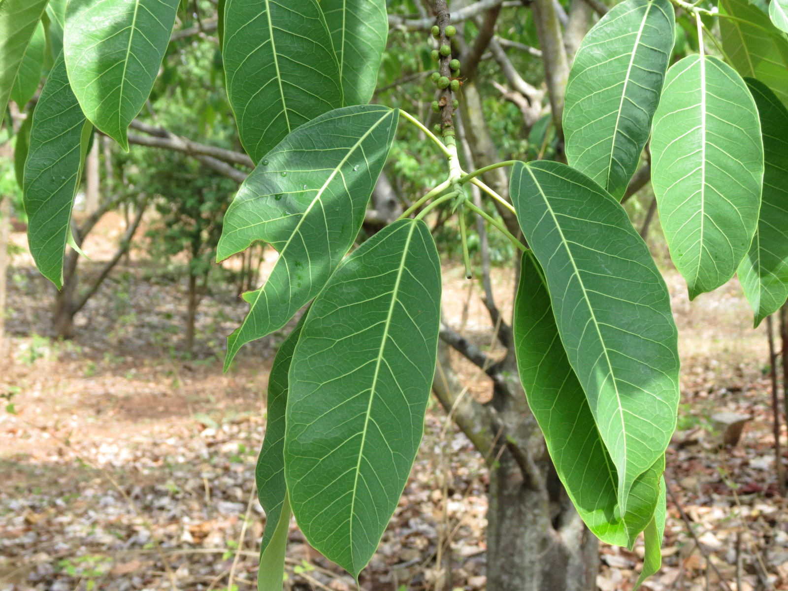 Ficus Tsjahela seen in Nilgiri Biosphere Nature park, Anaikatty Coimbatore.